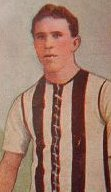 Australian rules footballer Bob Rush(1880-1975), He made his VFL debut in 1899